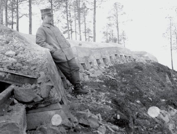 The trench line's breastwork, with embrasures, seen from the glacis, during the construction phase at Hegra Fortress.